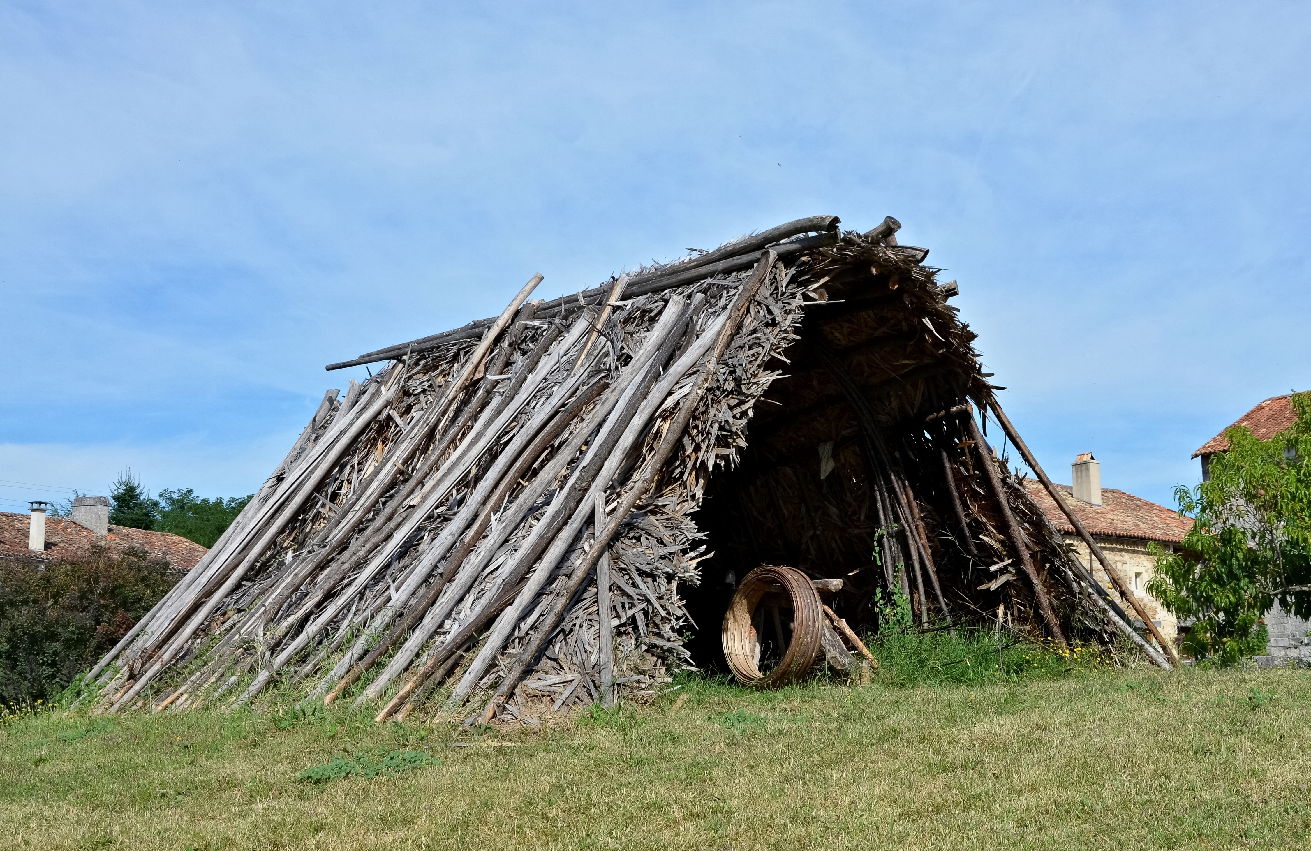 Traditionnal cabin where chestnut circles were made for 19th century barrels in Forêt d'Horte, near Combiers, Charente, France.